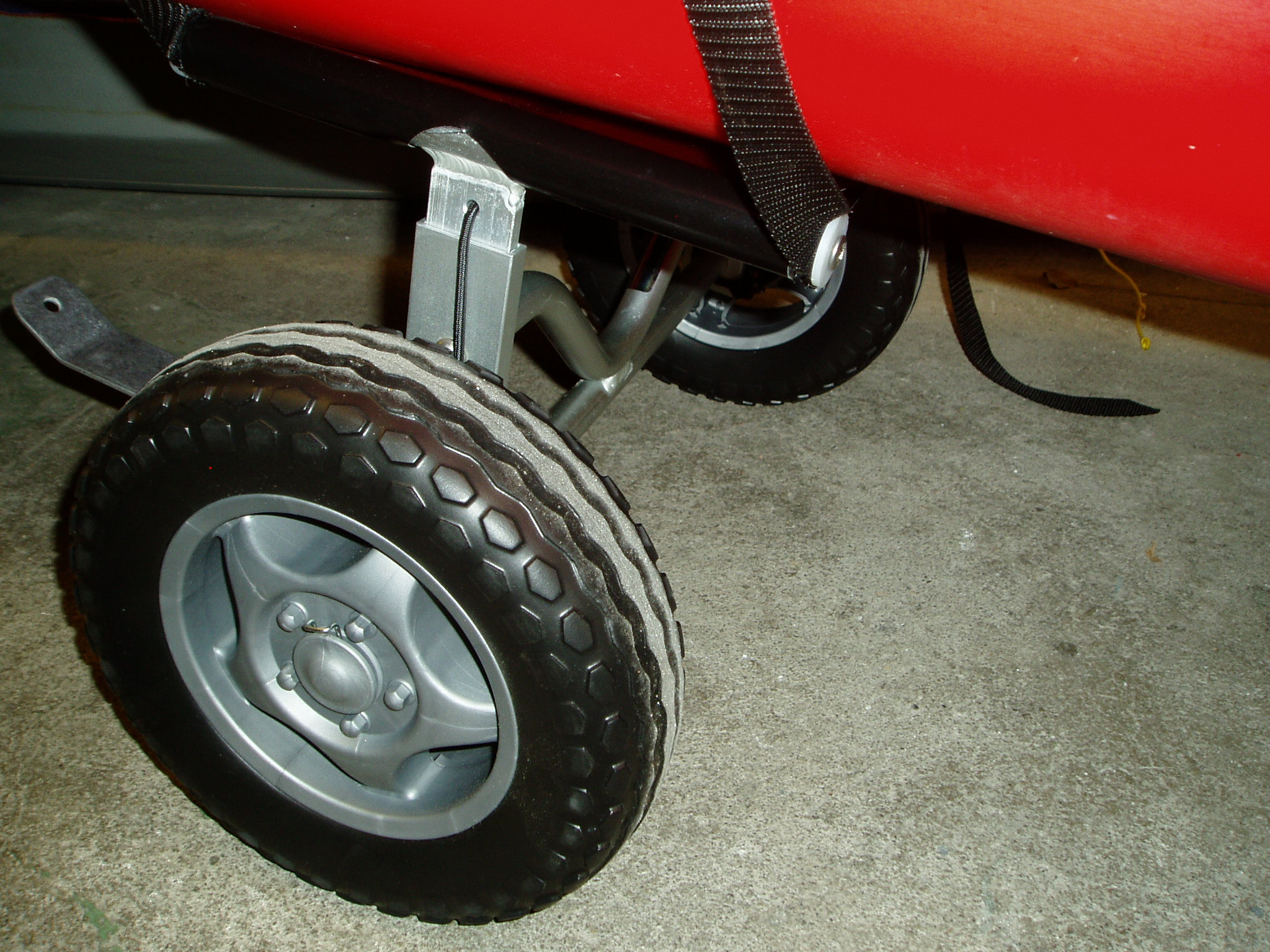 Picture taken by author: A boat cart from Zölzer own work